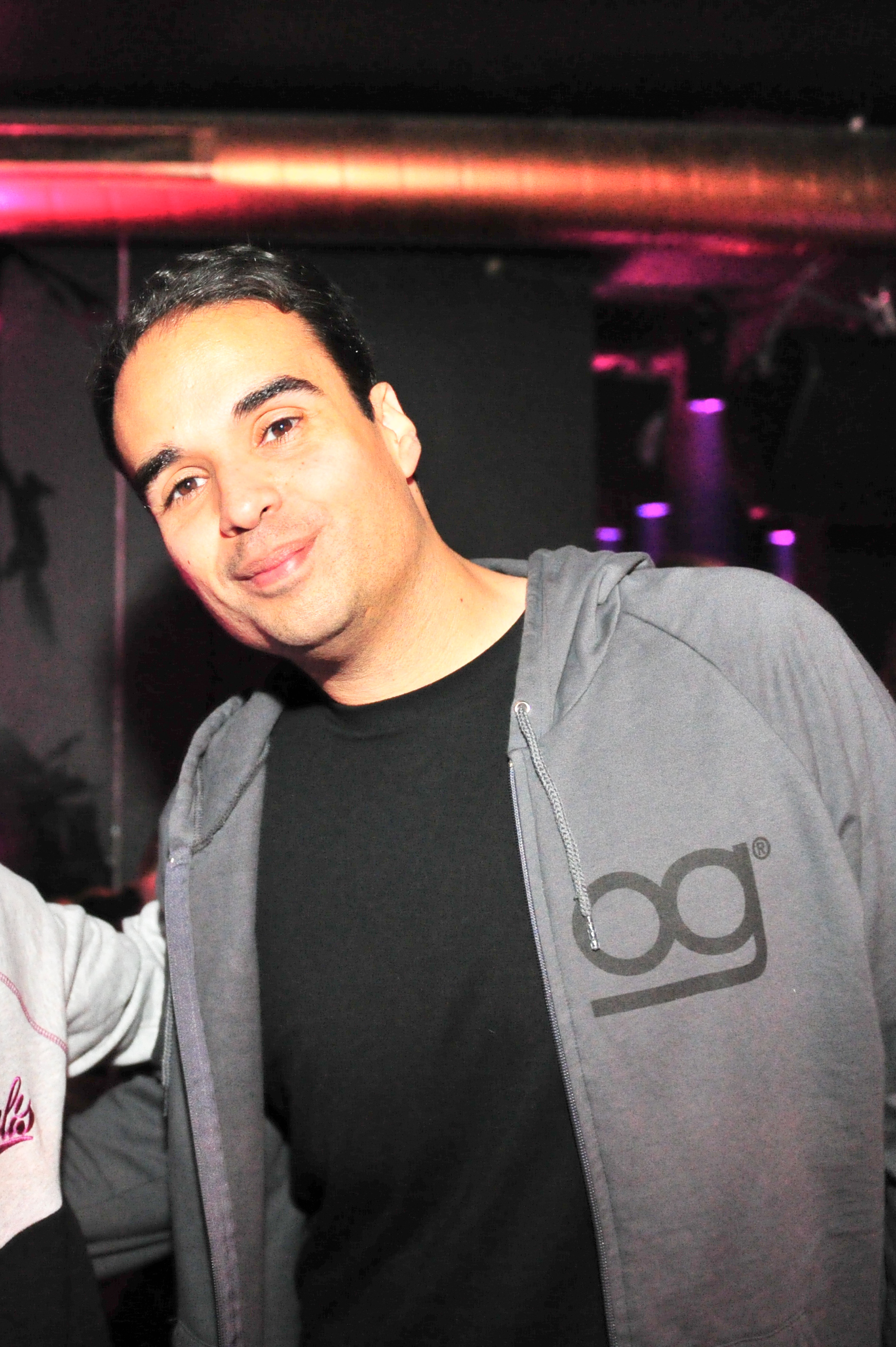 John Tejada at Dunkel in Copenhagen, 14 May 2010